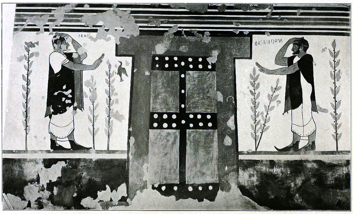 Painting on the back wall of the tomba degli auguri (tomb of the augurs)